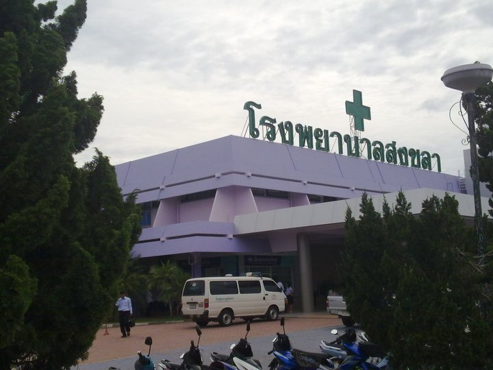 sk-hoapital.jpg